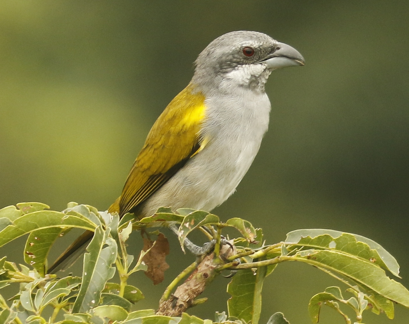 Yasuni Nat’l Park - Ecuador